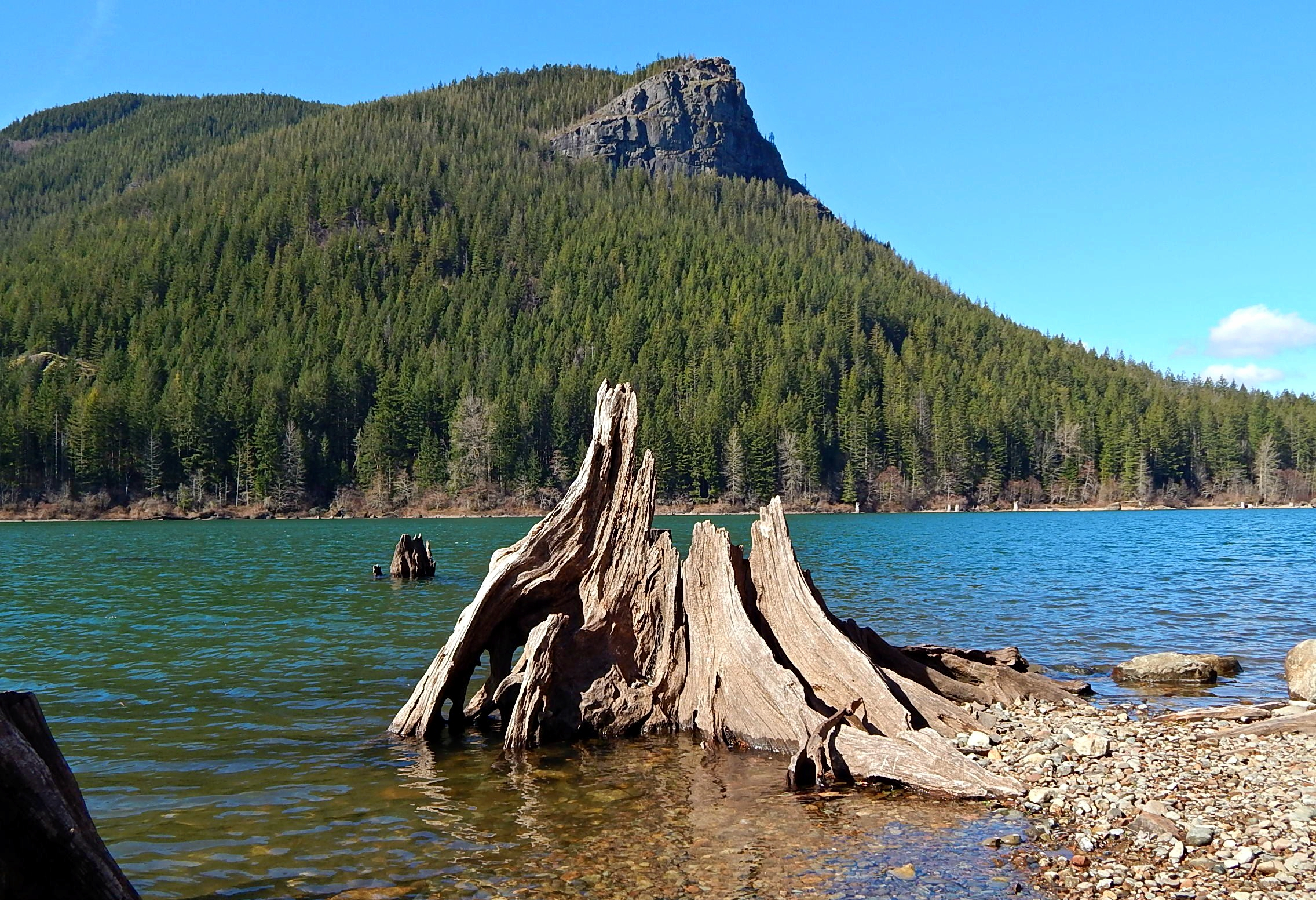 Rattlesnake Ledge, seen from Rattlesnake Lake. King County, Washington.